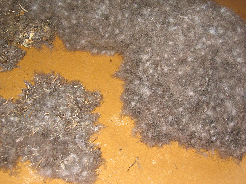 Eiderdown photo by Salvor Gissurardottir from eiderdown harvesting in Skáleyjar, Iceland in June 2006